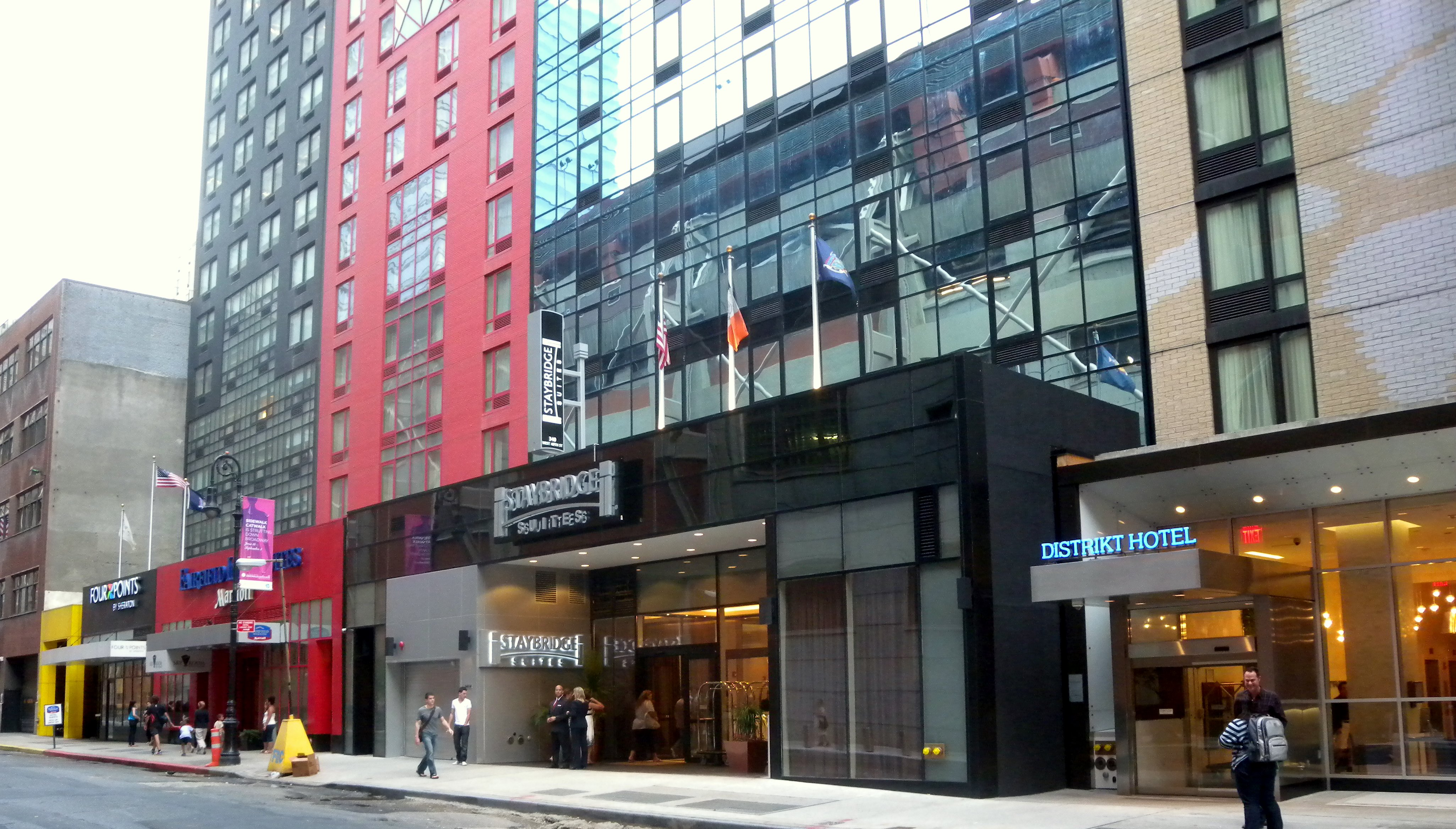 Looking south across 40th Street from Port Authority Bus Terminal at a row of four hotels on a cloudy late afternoon. (From left): Four Points, Fairfield, Staybridge and Distrikt.